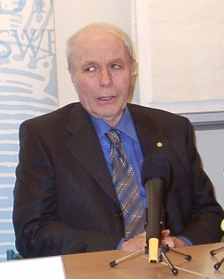 The image of Nobel Laureate in Chemistry, Avram Hershko